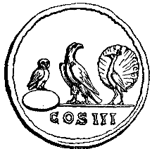 738 woodcuts illustrating the work A Dictionary of Roman Coins, Republican and Imperial (1889). To identify a coin please look at the filename to identify a page number, and check the Dictionary on numiswiki